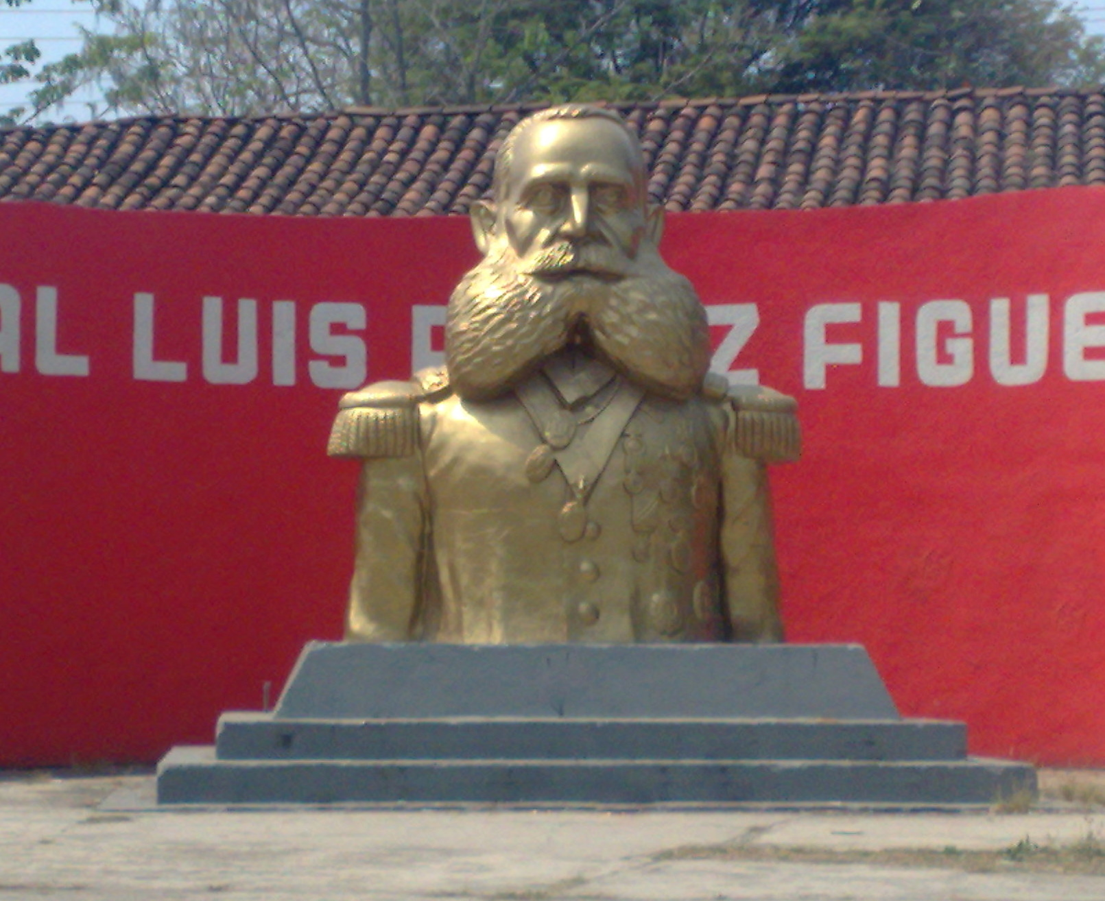 Monument to the illustrious general Luis Perez Figueroa located in the locality of Acatlán de Pérez Figueroa, Oaxaca, Mexico.